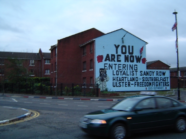 sandy row: "A sign near the Hotel, designating a neighbourhood we were told NOT to wander around in."